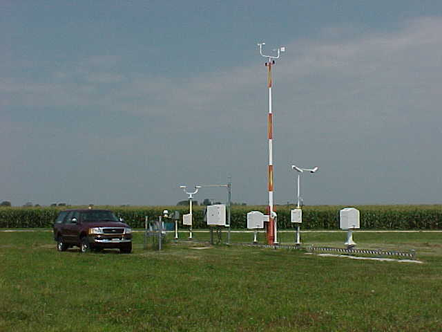 Installation of the Automated Surface Observing System (ASOS) began at the Springfield airport on the 1st, and at the Peoria airport on the 10th. ASOS is designed to automate routine hourly weather observations of temperature, weather type, wind, sky condition, and visibility.